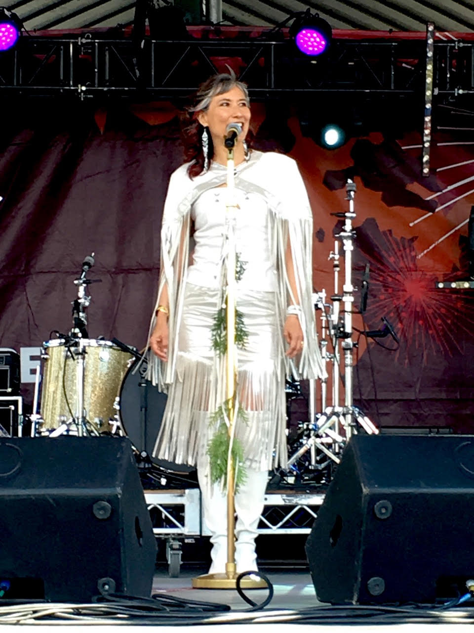 Terri-Lynn Williams-Davidson performing July 1, 2019. Photo by Elizabeth Bulbrook.